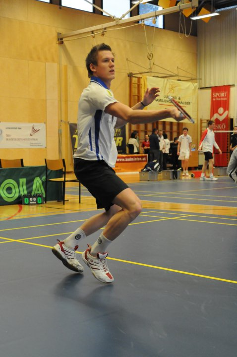 Philipp Perissutti Badminton